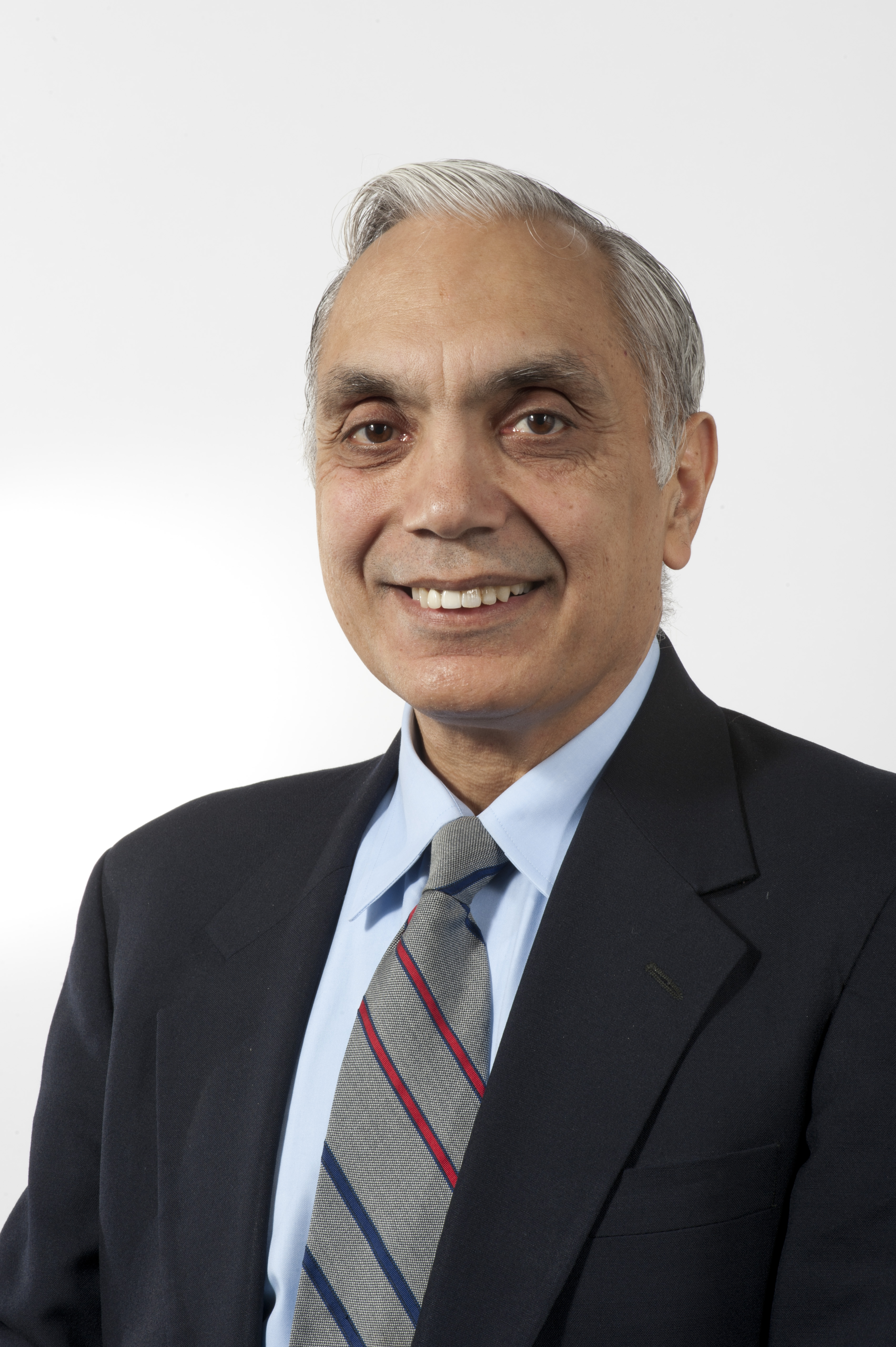 Photo of S. Hamid Nawab